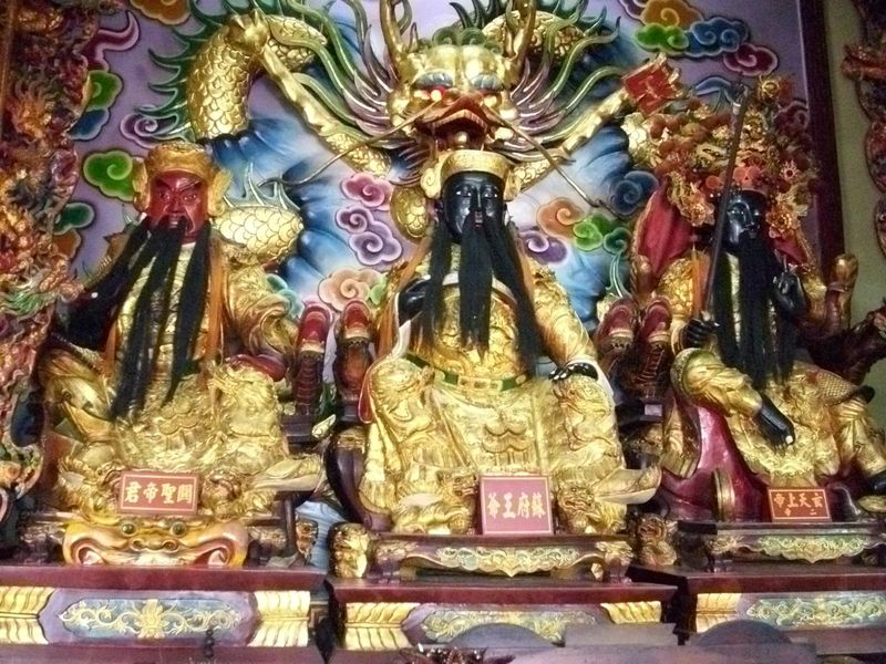 The idols of Xuan Wu, Guan Yu and Chieftain Su in Fŭing Temple, Dadu District, Taichung.